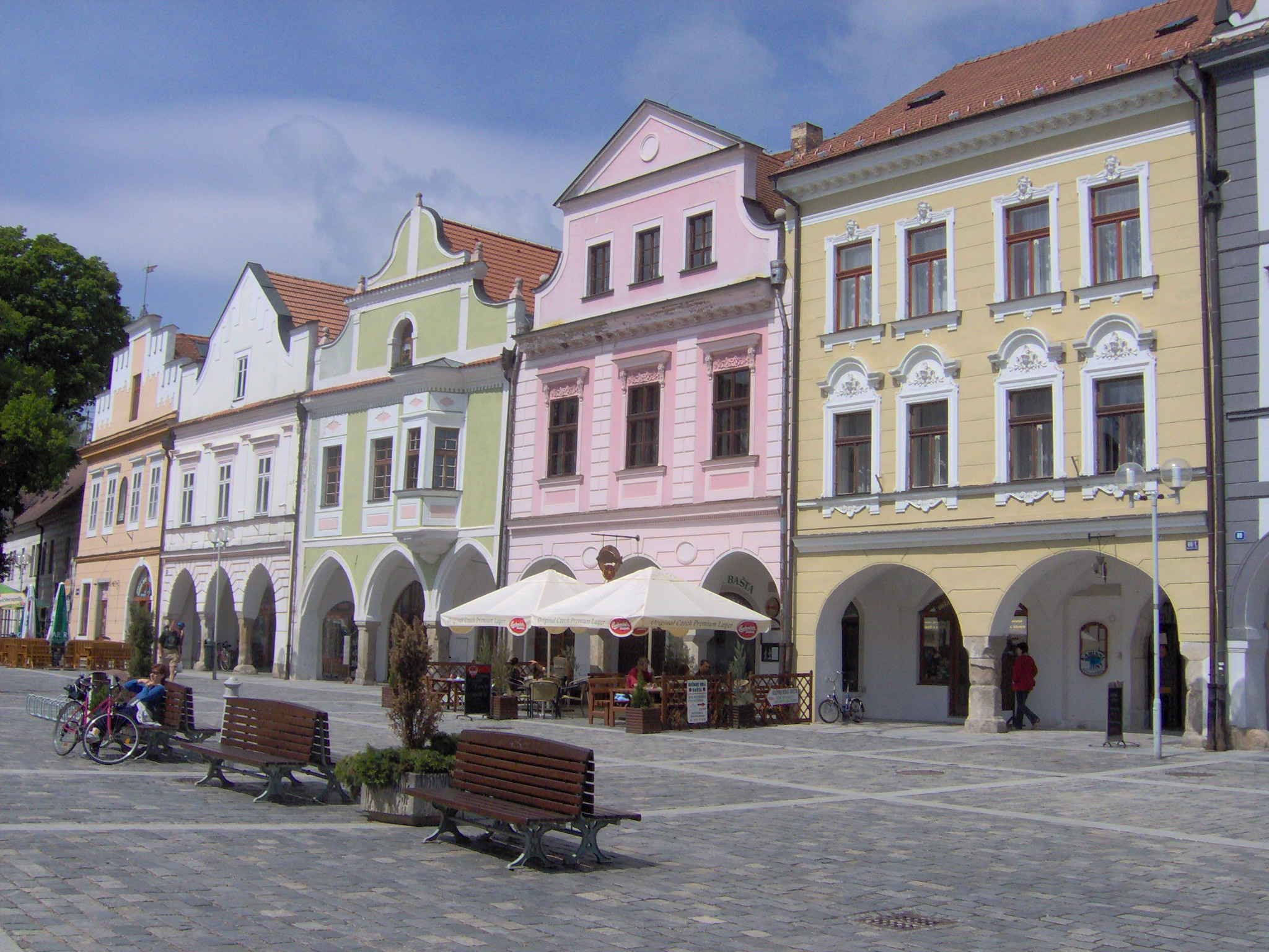 Square in Třeboň, South Bohemian Region, Czech republic